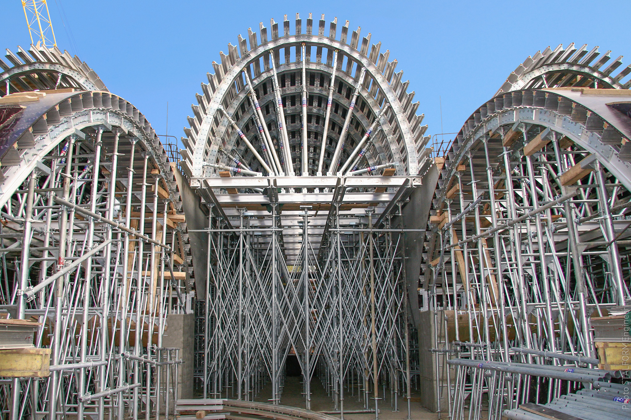 STALFORM Int’s experts have developed a special formwork system based on the aluminum beams and steel frames for the Volokolamskaya metro station. The station was built by the open cut construction method under the architectural design made by the open JSC METROGYPROTRANS. The set of the special formwork system included horizontally-movable rolling modules to form reinforced concrete monolithic coffered vaults, demountable arched falsework and panels from the MEGAFORM AL beams, as well as a set of molds made of laminated plywood for the concrete casting of the coffers. For additional information go to the site